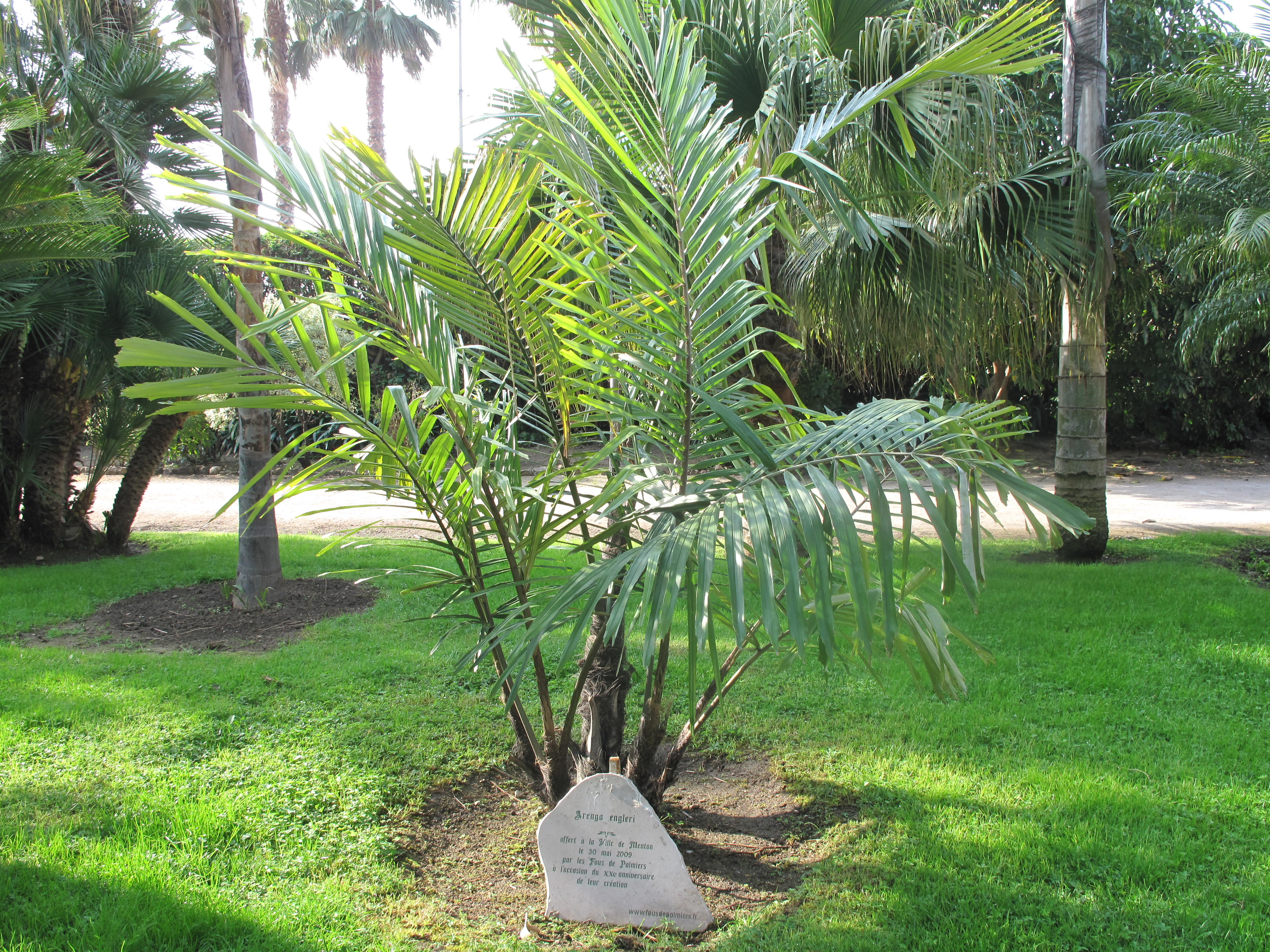 Palmtree Arenga engleri in the garden of the villa Maria Serena in Menton (Alpes-Maritimes, France). Identified by botanic label.